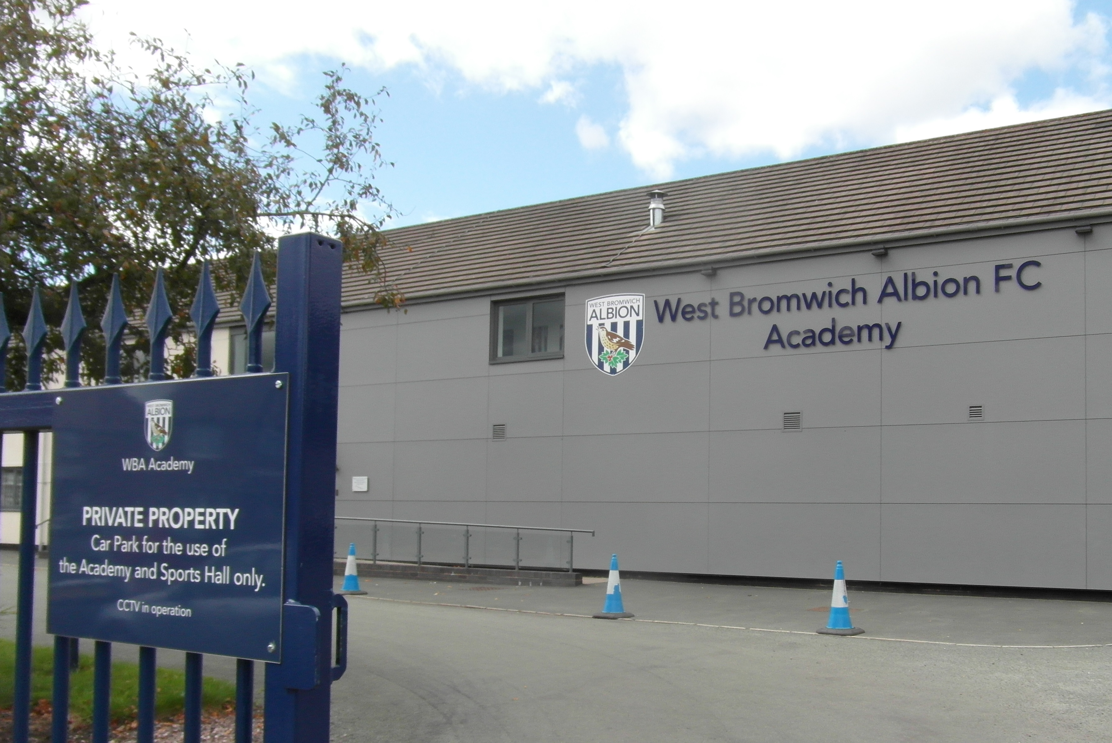 West Bromwich Albion FC Academy building, Halfords Lane, West Bromwich, England